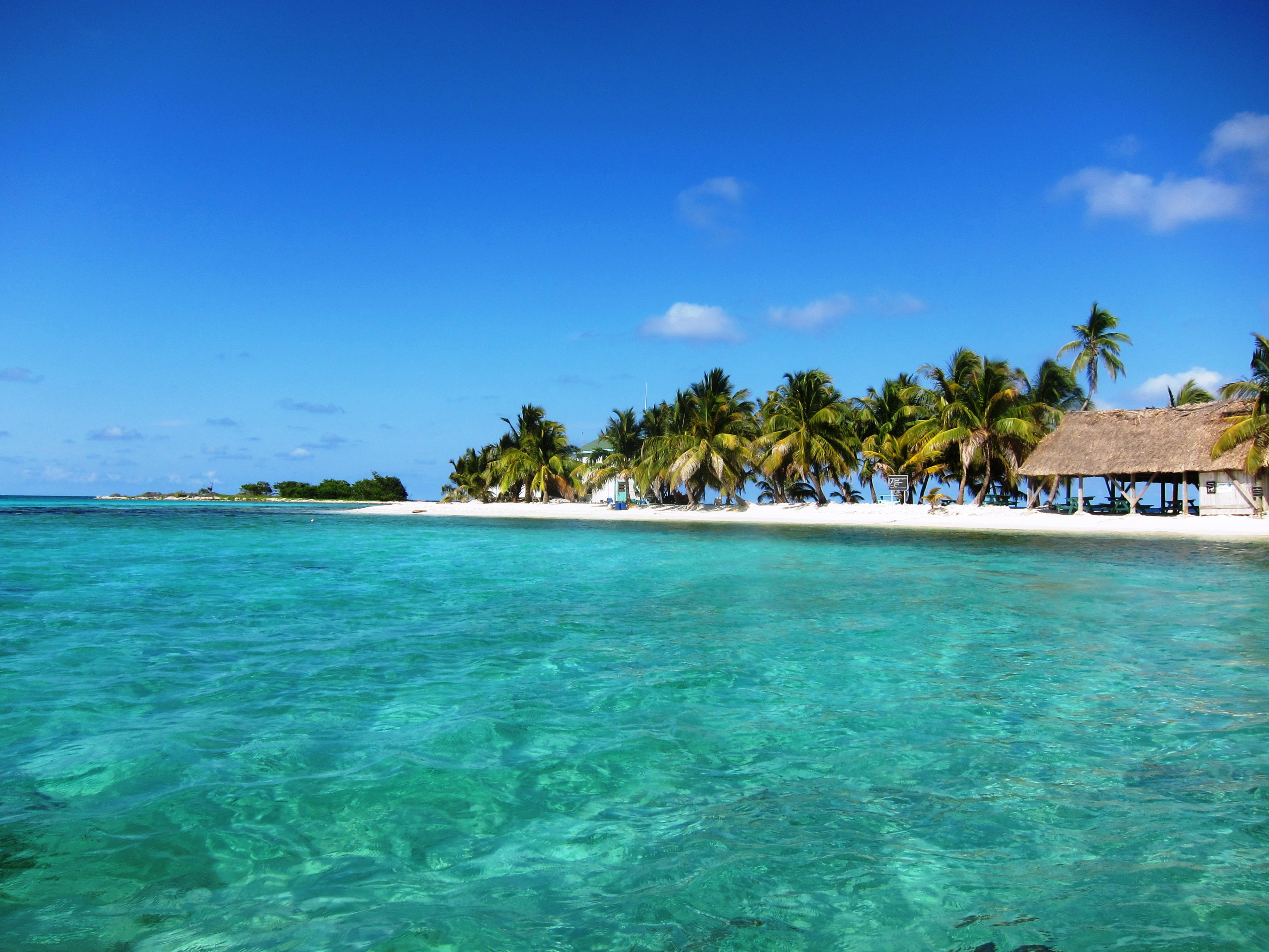 Laughing Bird Caye, Belize 2